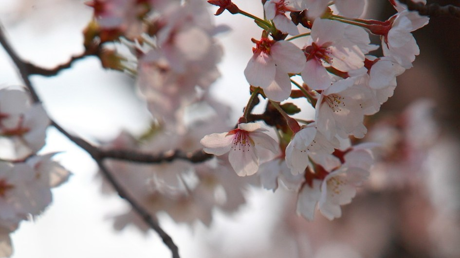 Jeju flowering cherry (Prunus × nudiflora) flower